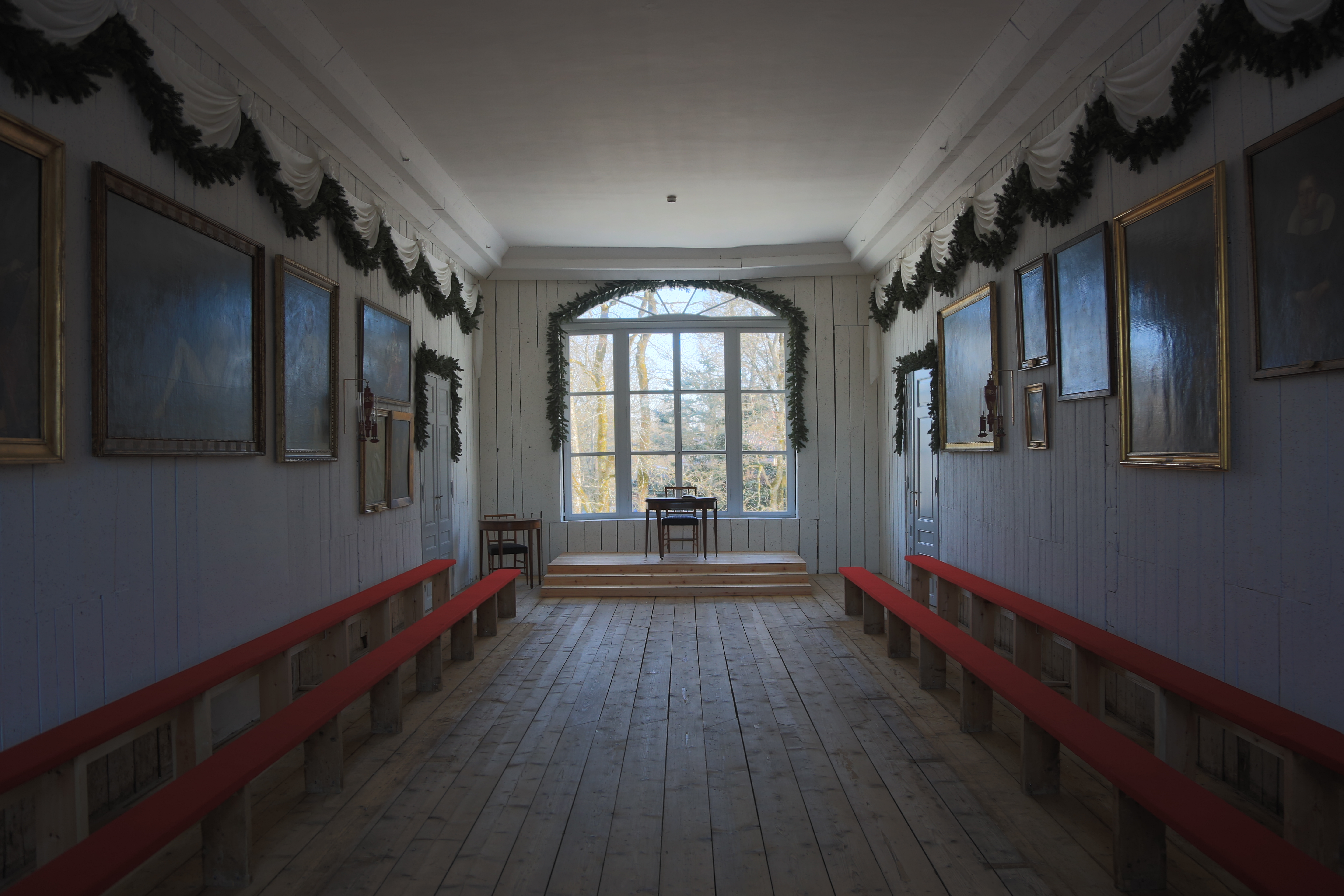 The building where Norways constitution was made in the spring of 1814. Room where the Norwegian Constituent Assembly held its meetings. After restoration before 2014.